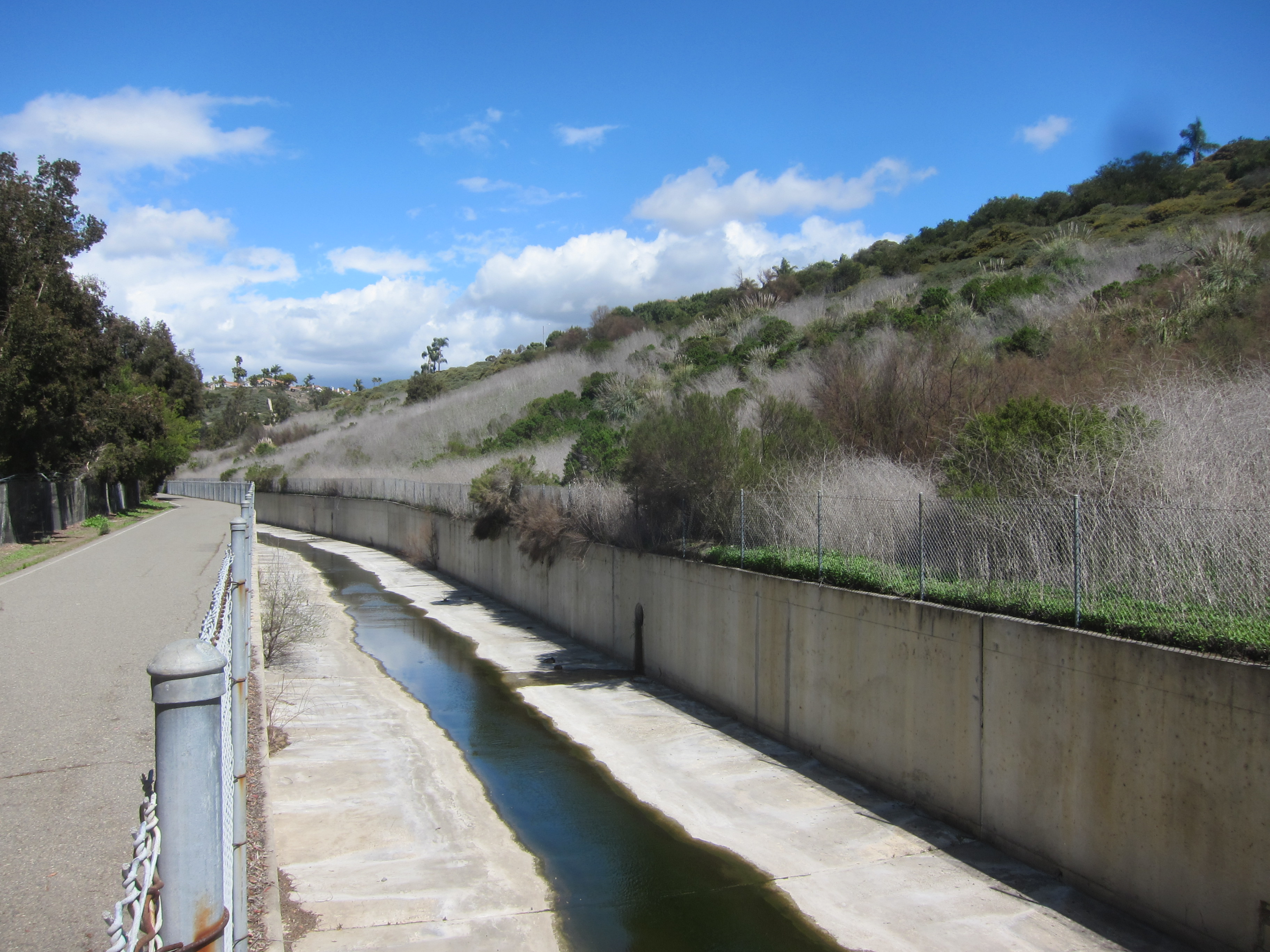 Sulphur Creek at the SOCWA water treatment plant upstream of Laguna Niguel Lake